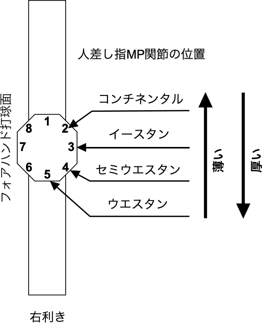 Right-handed forehand grips